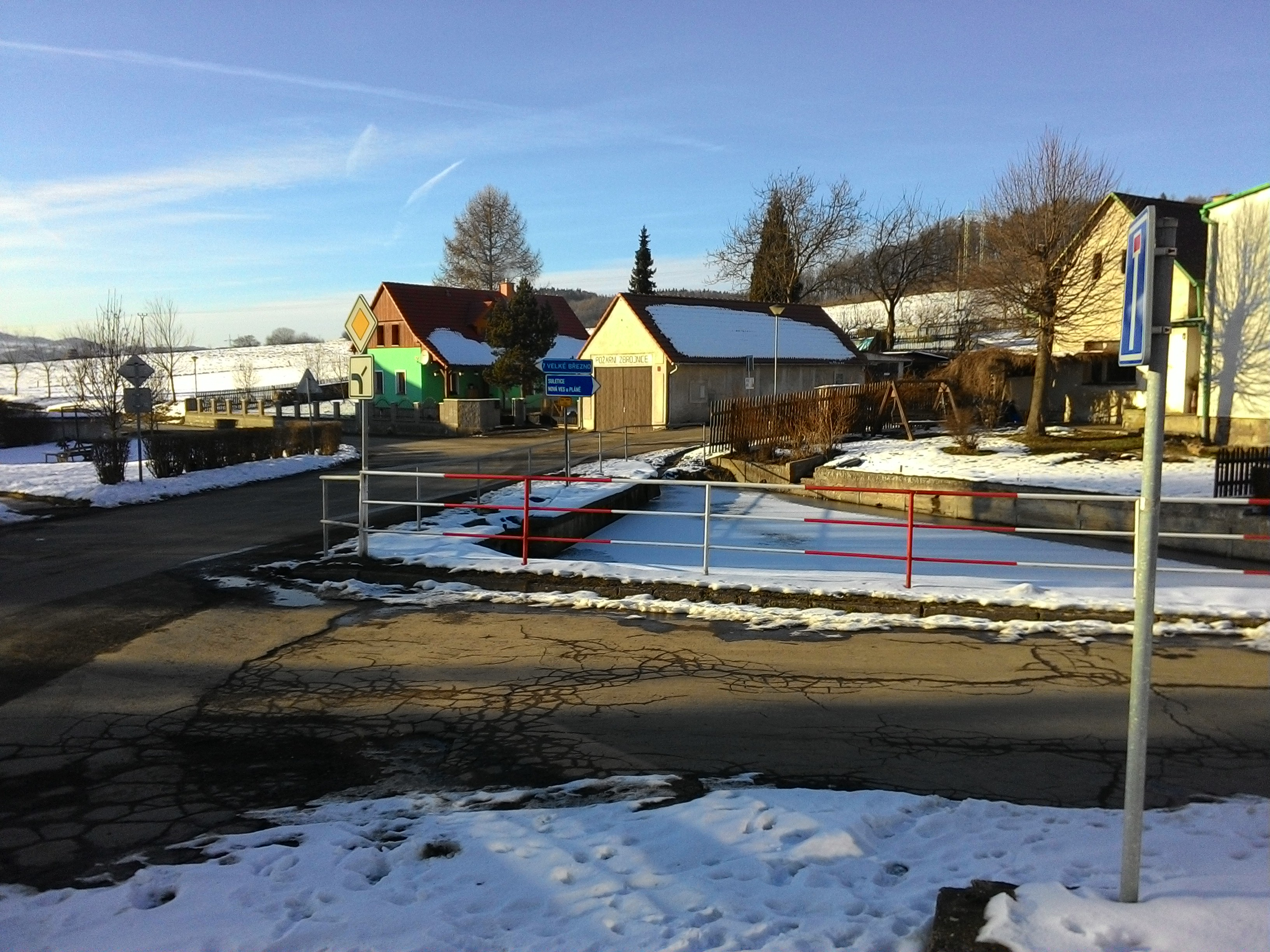 Main crossing in the village of Homole u Pany, Ústí Region, CZ